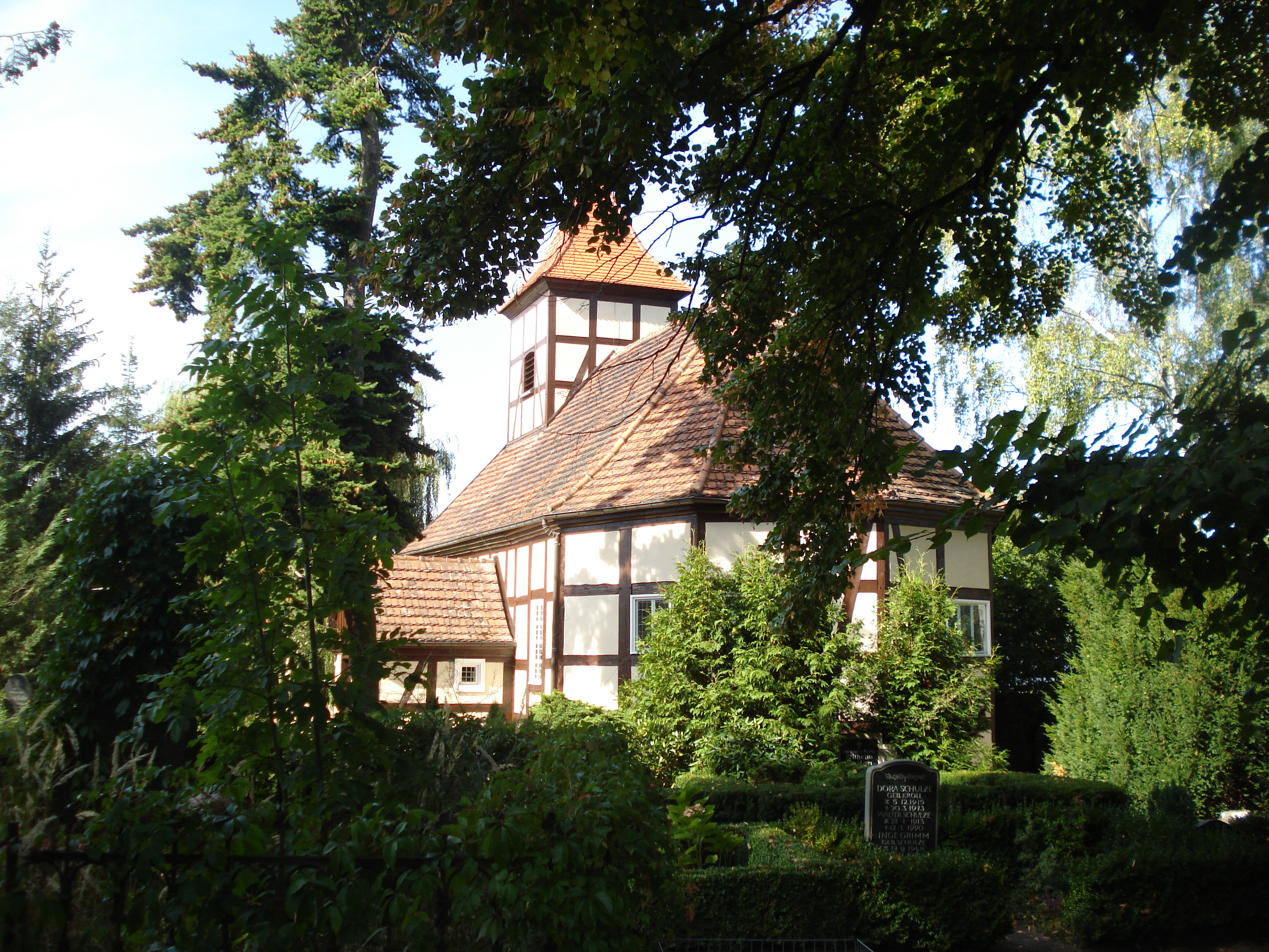 church of Bergholz-Rehbrücke